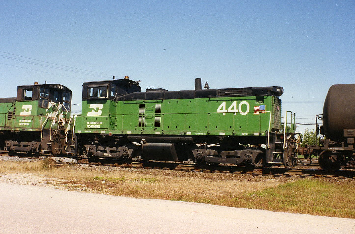 Burlington Northern Railroad 440, an EMD SW1000 working the yard at Eola, Illinois, September en:1992. Photo by Sean Lamb (User:Slambo)